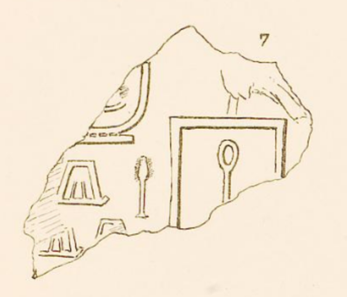 Drawing by John Garstang of a seal impression discovered in Beit Khallaf showing part of the serekh of Sanakht (3rd Dynasty) and part of a cartouche which may house the sign for "ka" of Nebka.